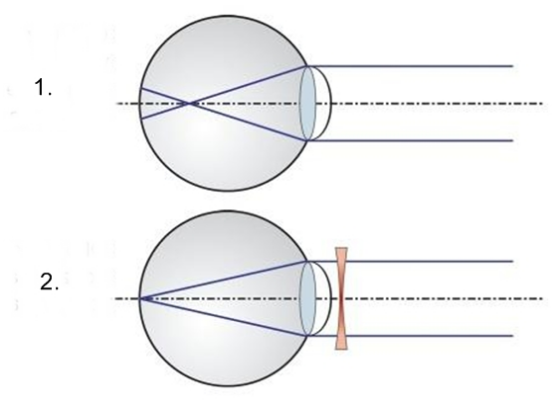 Correction of myopia.